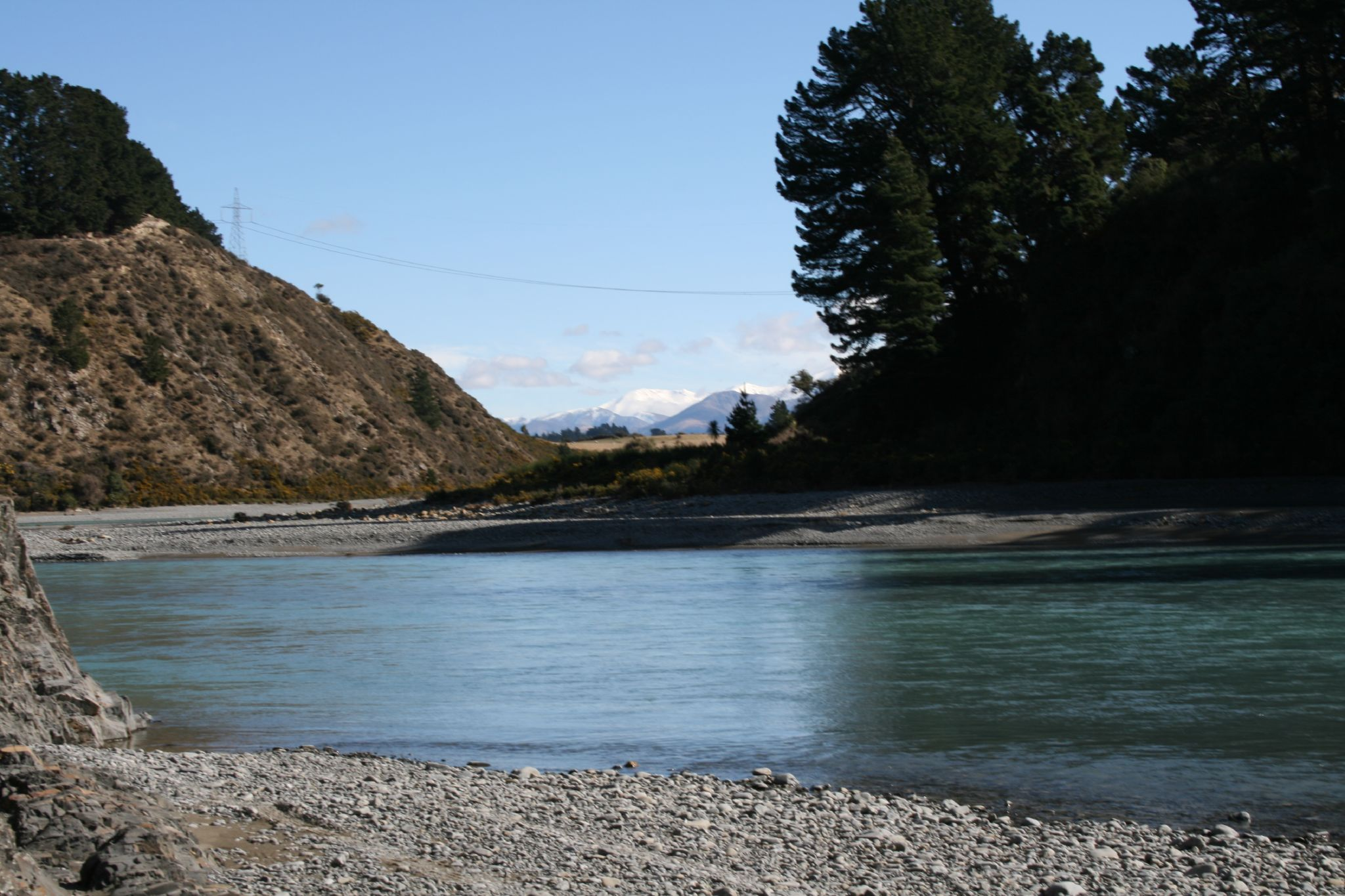 Waimakariri River near the gorge.